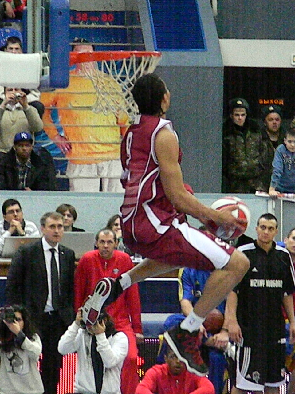 Slam-dunk by Gerald Green at all-star PBL game 2011